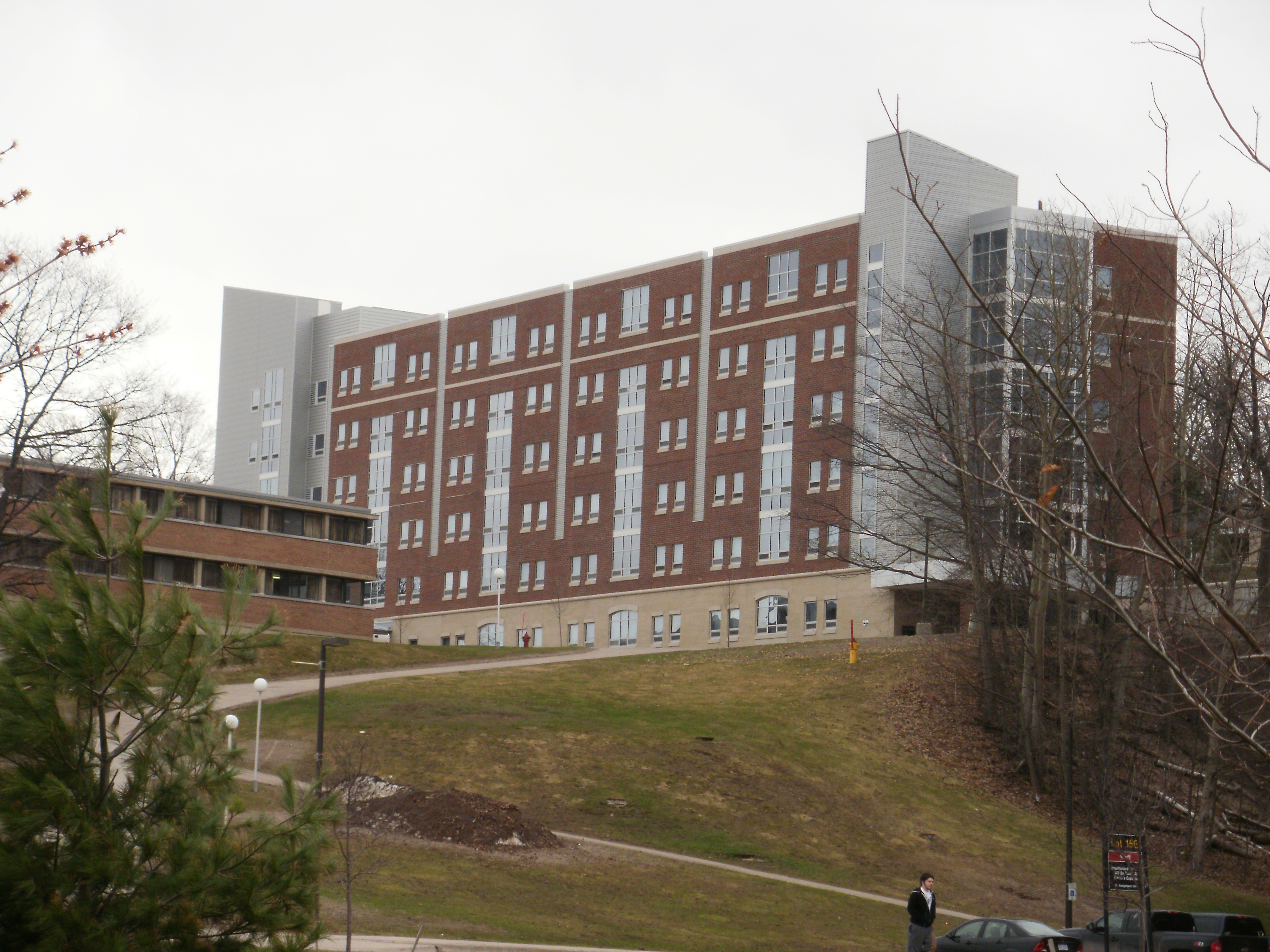 Hillside Place, a residence hall on the campus of Michigan Technological University